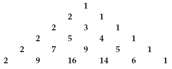 (2,1)-Pascal triangle to 5 rows, the first row is the zero row.